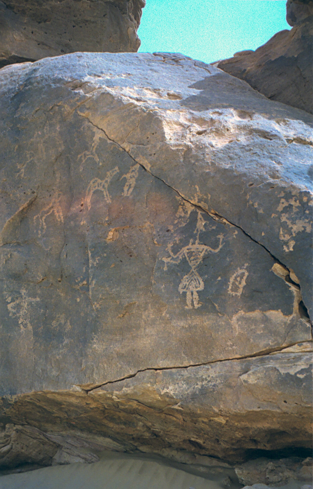 Ancient rock engraving. In the Southern Sahara near Tiguidit, Niger, 1997.1997 #278-12 Sahara glyph